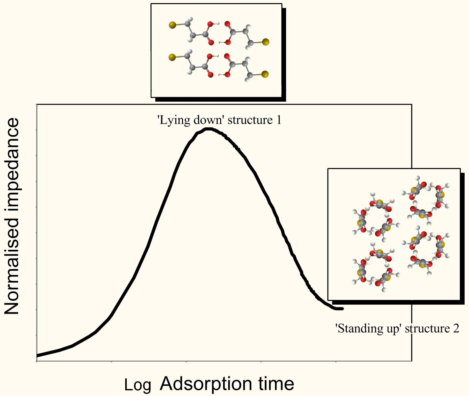 showing the measured normalised impedance reponse as a result of the adsorption and restructuring of MPA on an adsorbent surface.